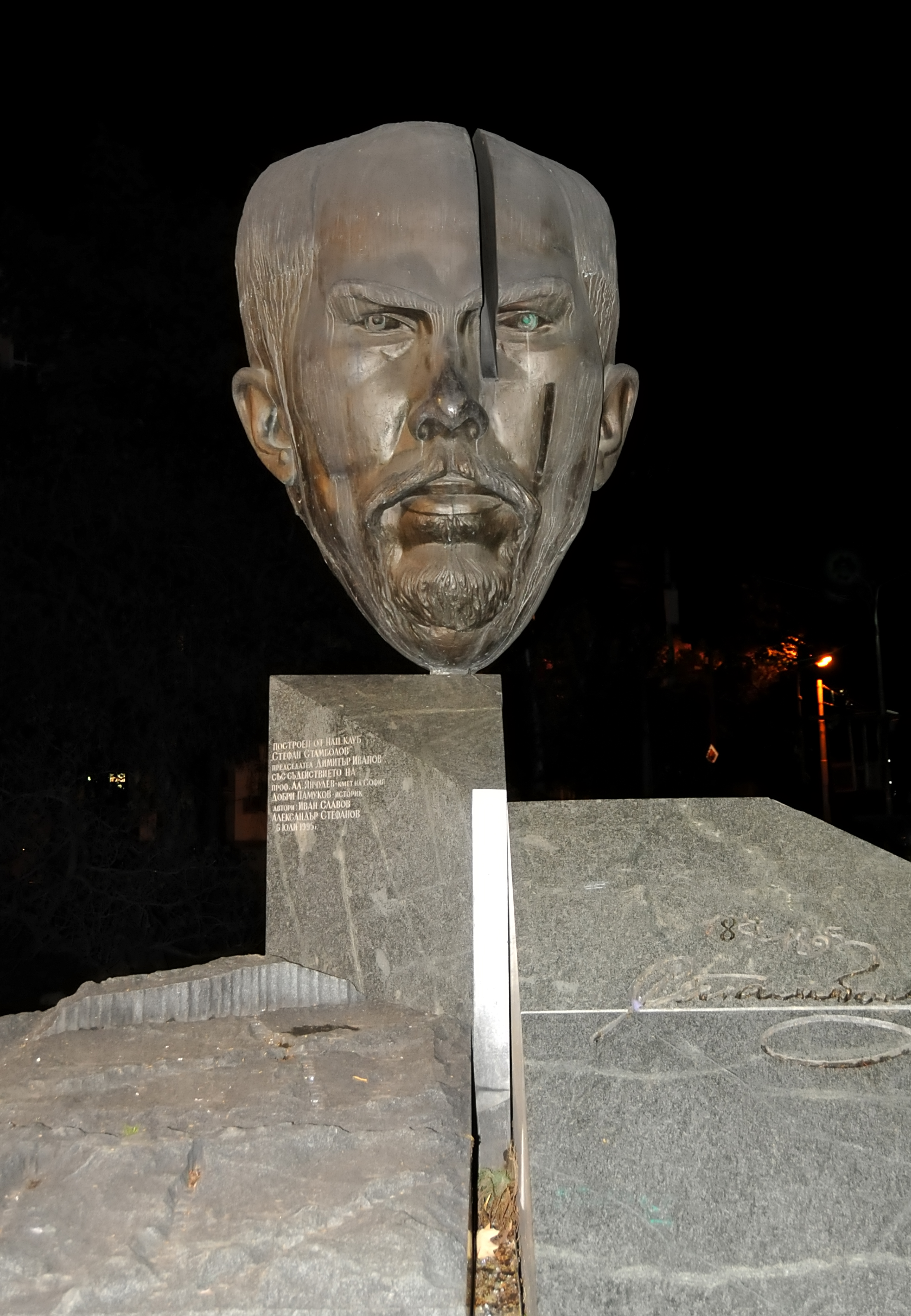 PLEASE, no multi invitations, glitters or self promotion in your comments, THEY WILL BE DELETED. My photos are FREE for anyone to use, just give me credit and it would be nice if you let me know, thanks - NONE OF MY PICTURES ARE HDR. I found this to be a interesting statue but since the writing was in Cyrillic I could not read it. I asked the Bulgarian guide, who was with us and showed her a picture, but she did not know who this important person was, maybe she should get another job...... Statue of Stefan Stambolov, he was killed with an axe to the head, as his statue represents. Stefan Nikolov Stambolov (31 January 1854 – 6 July 1895) was a Bulgarian politician, who served as Prime Minister and regent. He is considered one of the most important and popular "Founders of Modern Bulgaria".